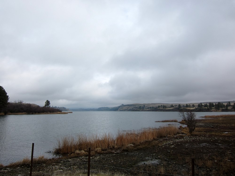 Rock Lake in Washington (state) in January from south end.